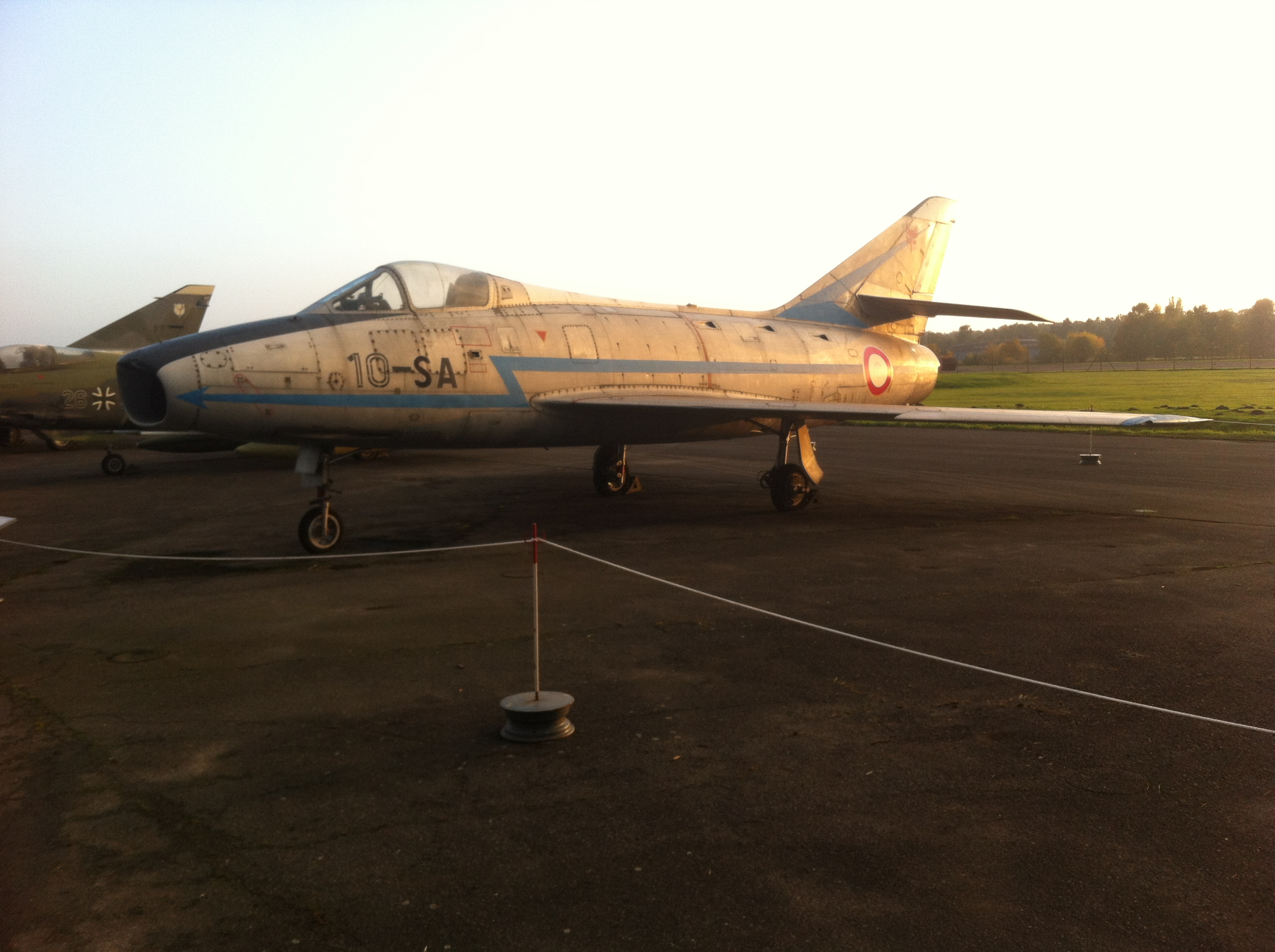 at Gatow